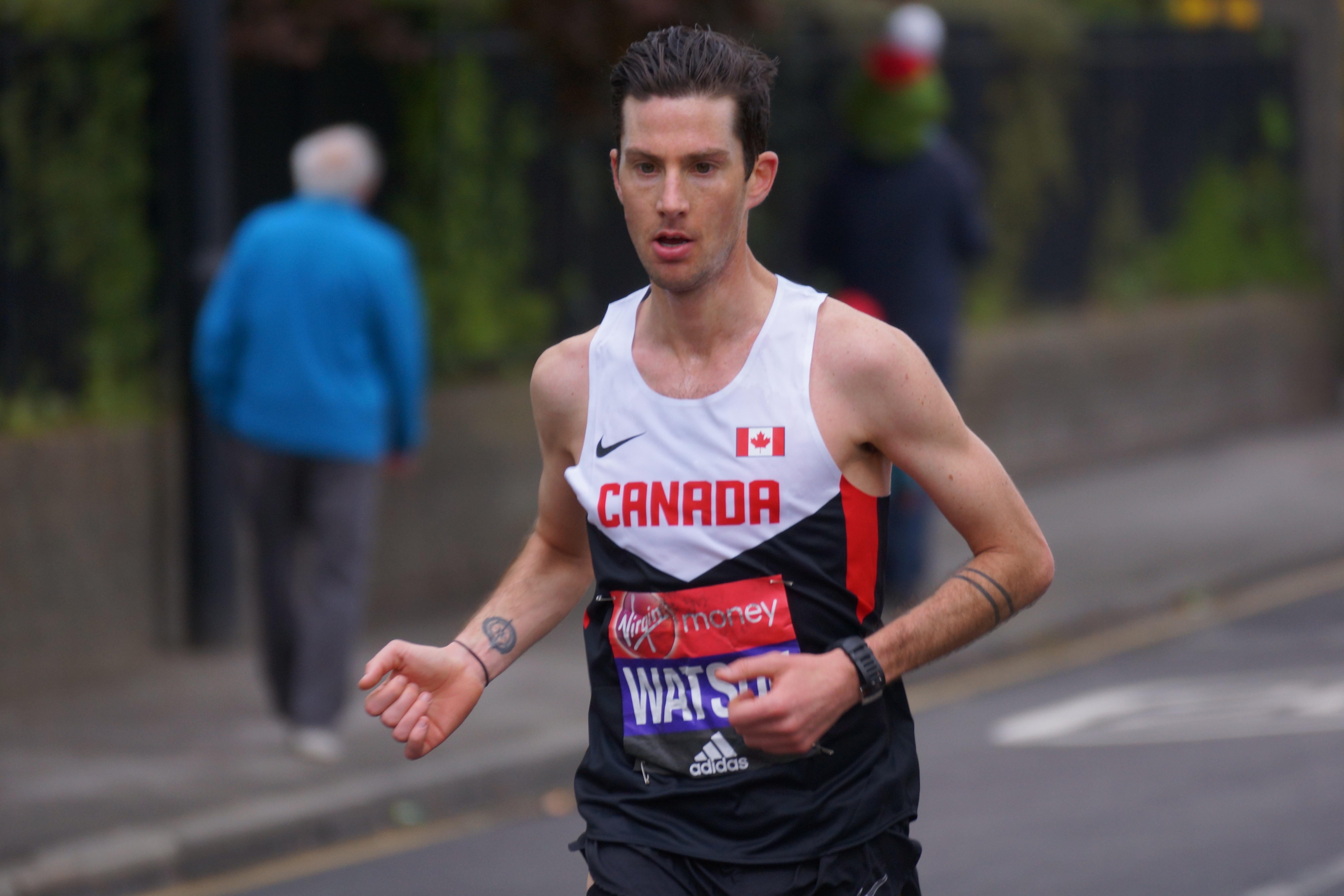 Rob Watson. Photograph taken by Julian Mason on 24th April 2016 during the London Marathon. Location Westferry Road on the Isle of Dogs close to Arnhem Place and just before Millwall Outer Dock.